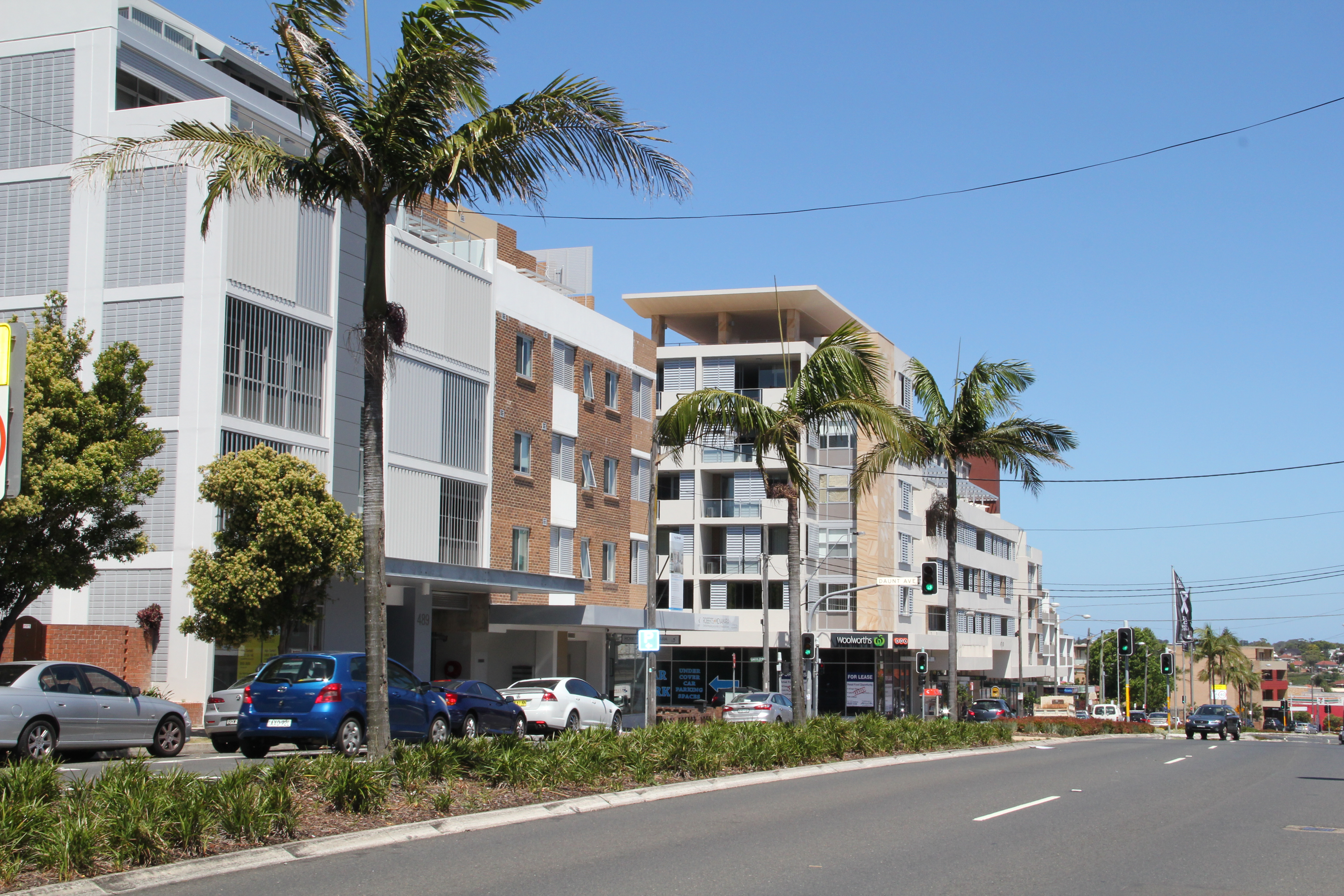 Peninsula Matraville